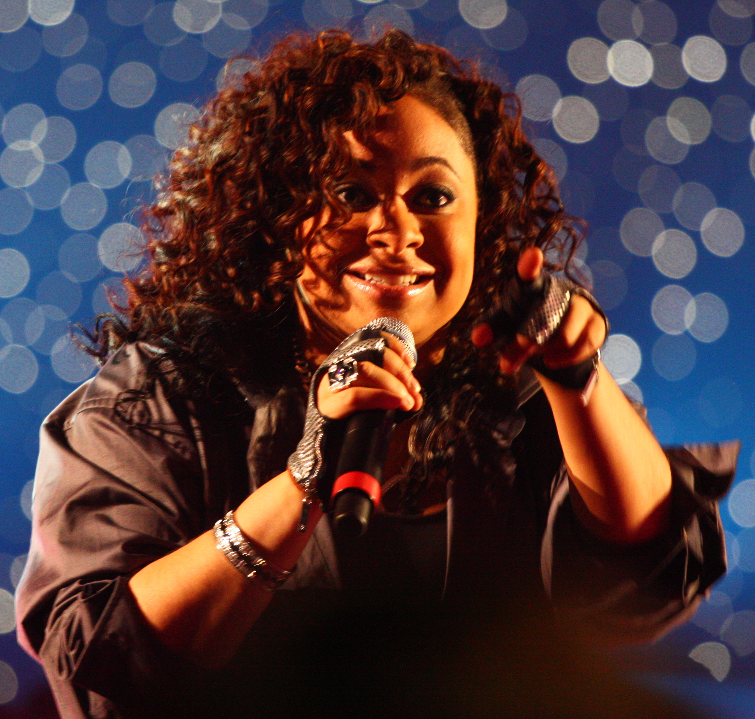 Raven-Symoné performing at the Disson Skating & Gymnastics Spectacular in Rapid City, SD, Dec 23, 2008.